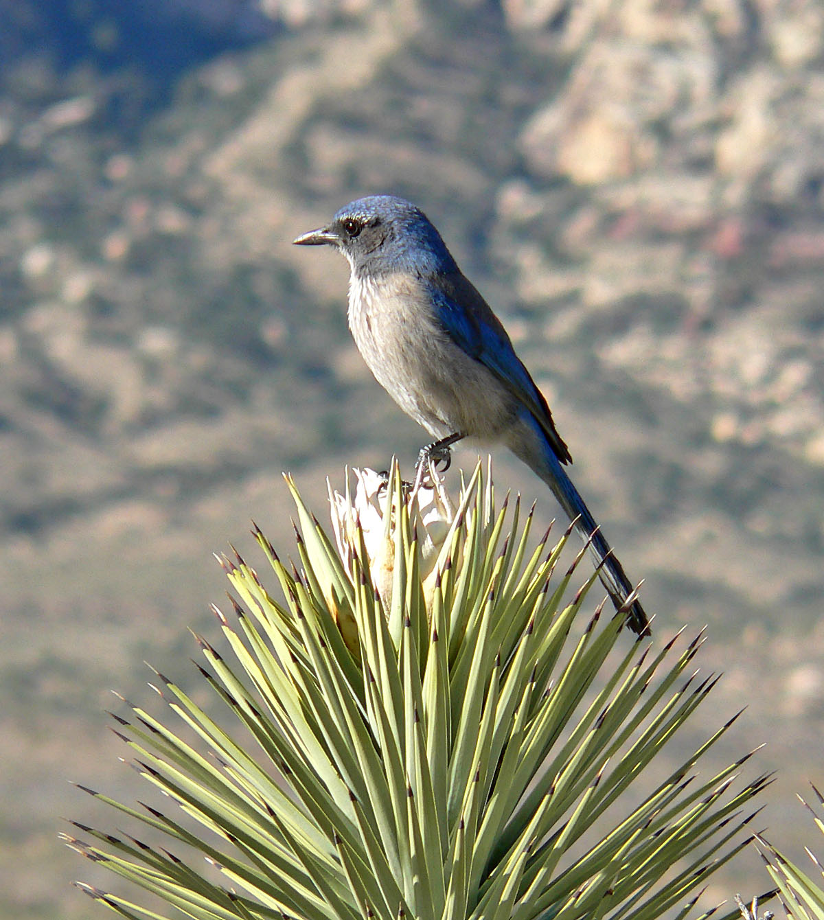 Aphelocoma woodhouseii (syn. A. californica woodhouseii; Nevada race/subspecies most likely) perched on Joshua tree, Red Rock Canyon, southern Nevada